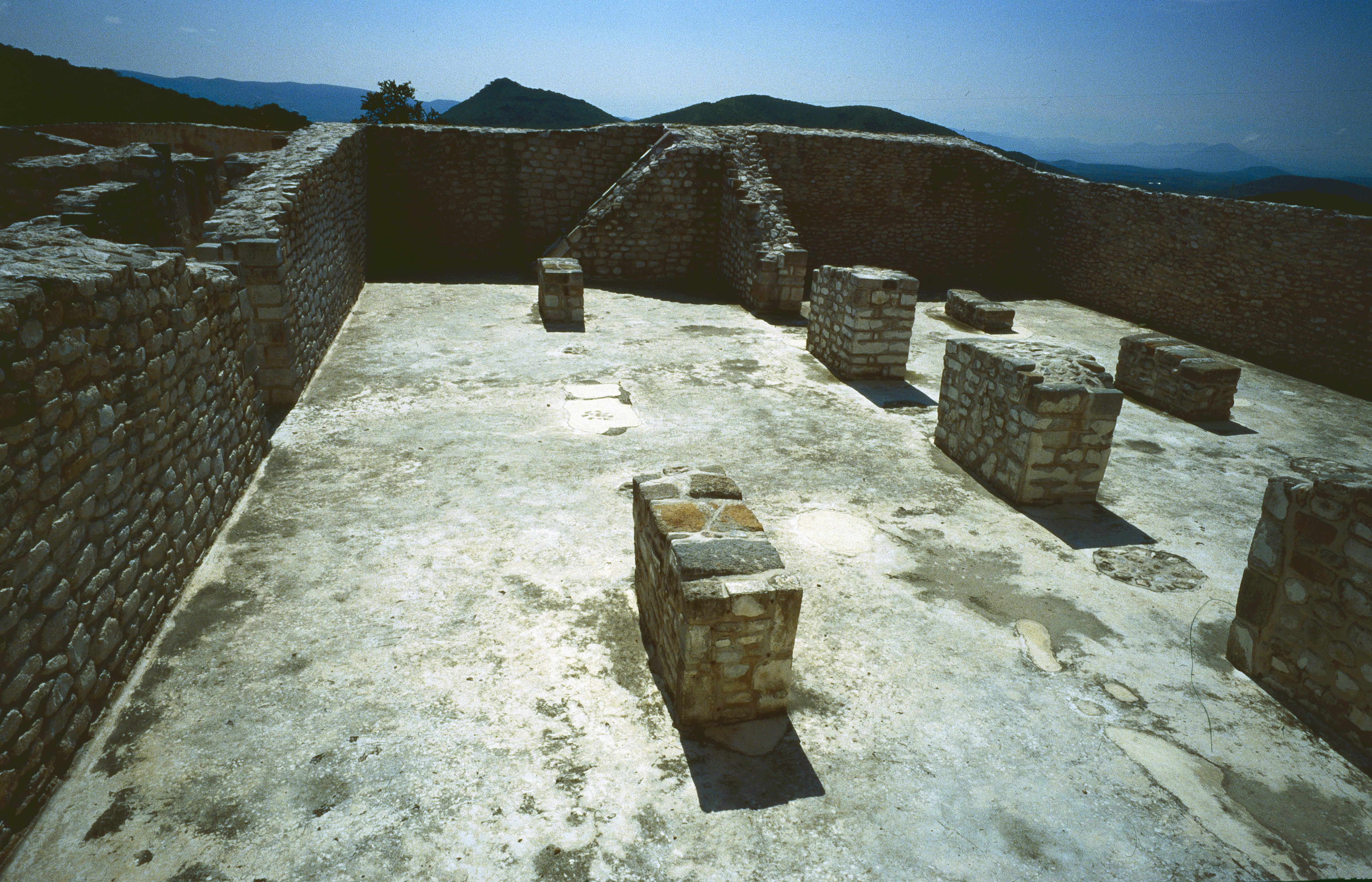 Xochicalco, Morelos, Mexico: Acropolis